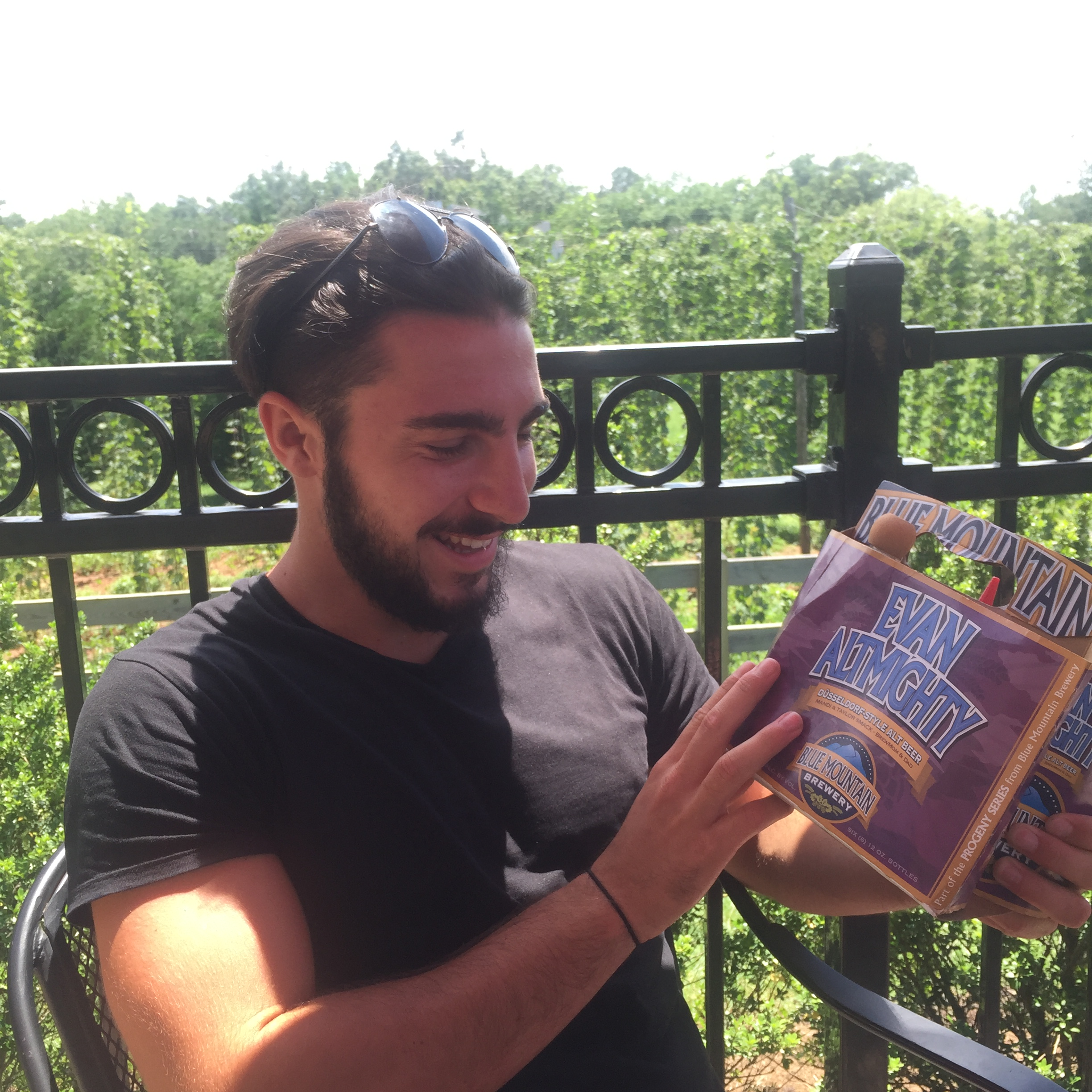 Evan with a six pack which bears his name.